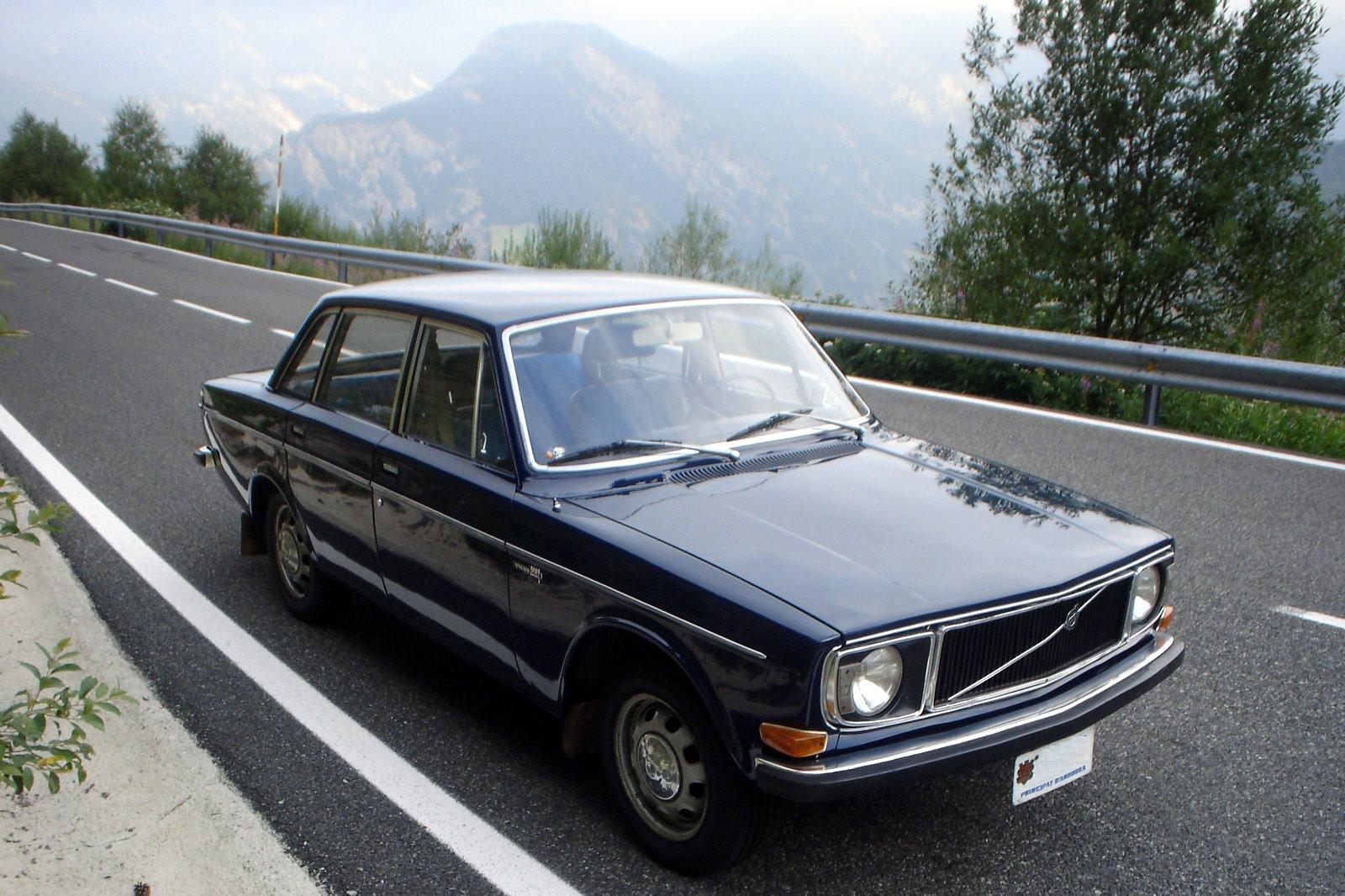 1972 Volvo 144